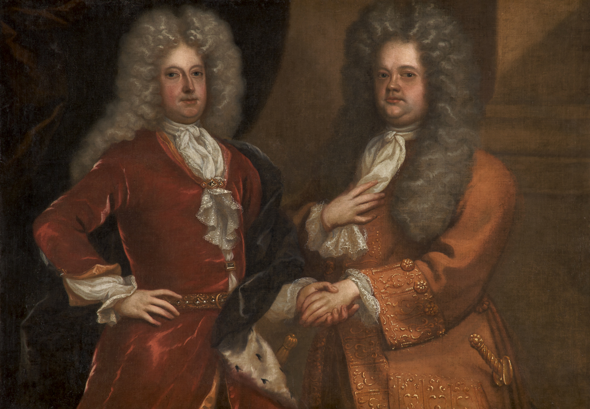 Portrait of Joseph Addison (1672-1719) and Richard Steele (1672-1729)